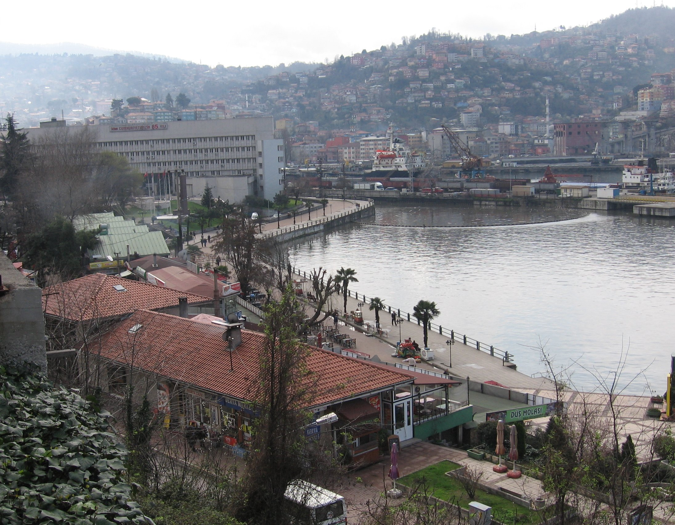 View of the Zonguldak port, Turkey.